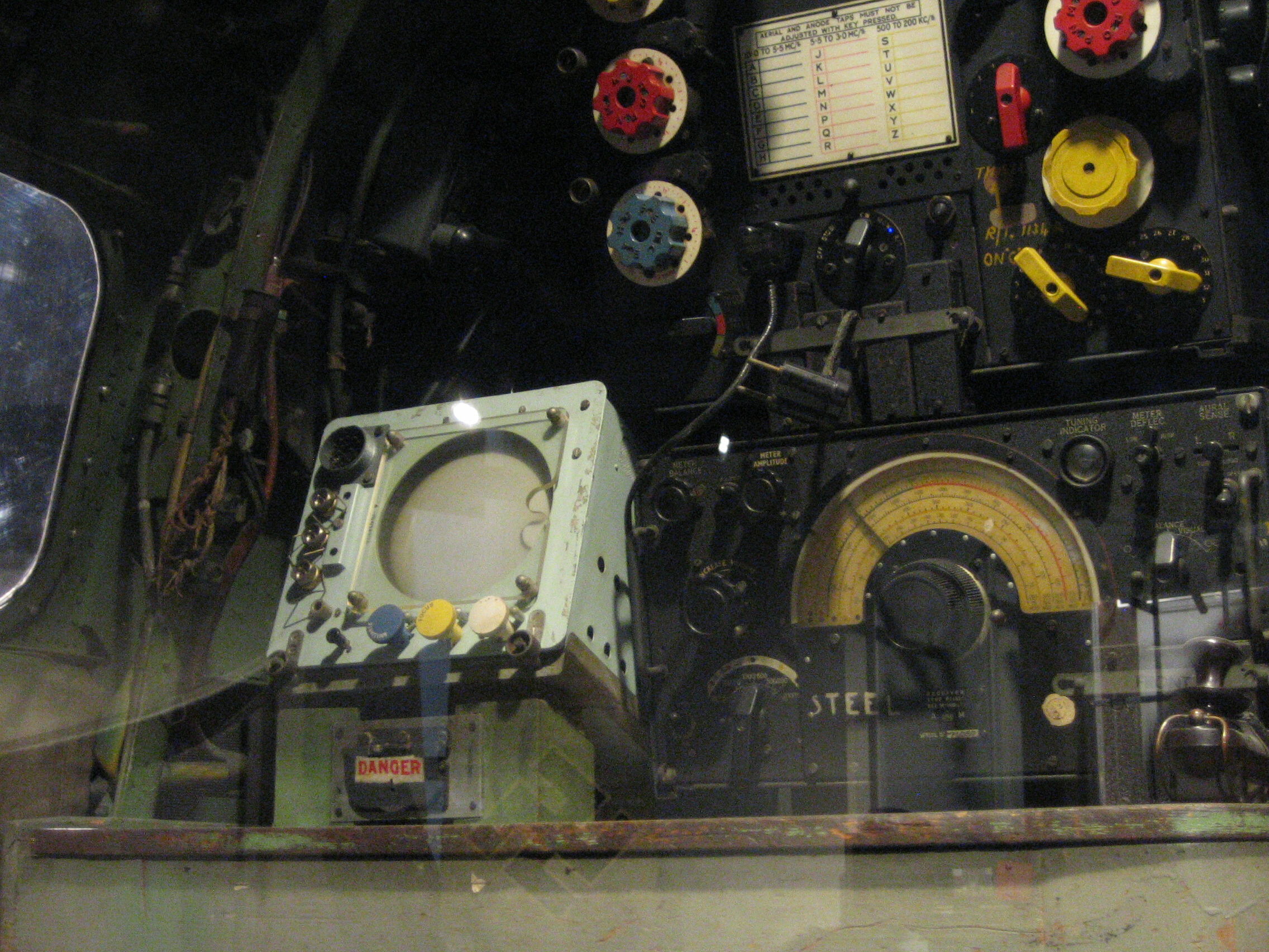 Unit 182 (Fishpond) shown mounted in radio operator's position aboard an Avro Lancaster.